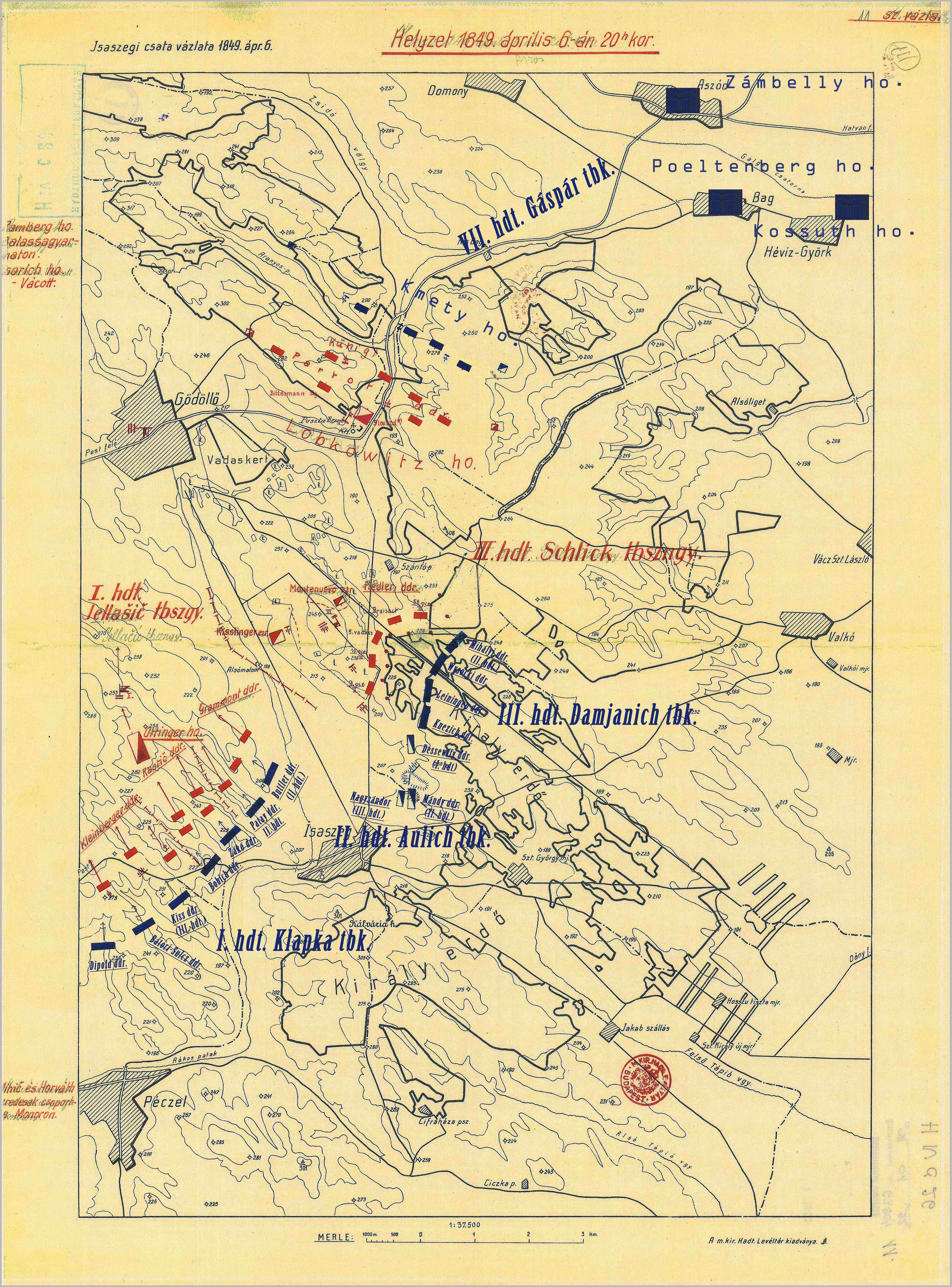 The situation at 20 o'clock. Red - the Austrian troops, Blue - the Hungarian troops.